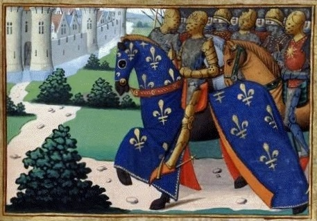 The siege of Tartas as illustrated in Vigiles de Charles VII by Martial d'Auvergne.